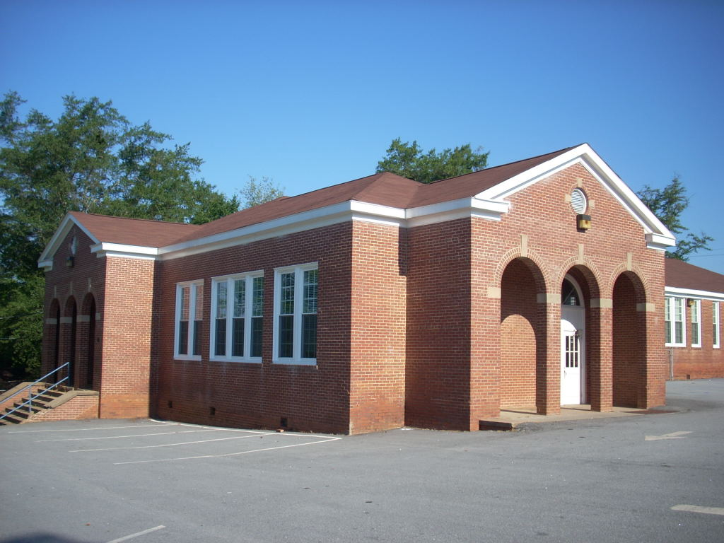 Liberty Colored High School, now Rosenwood Center, Liberty (Pickens County, South Carolina)